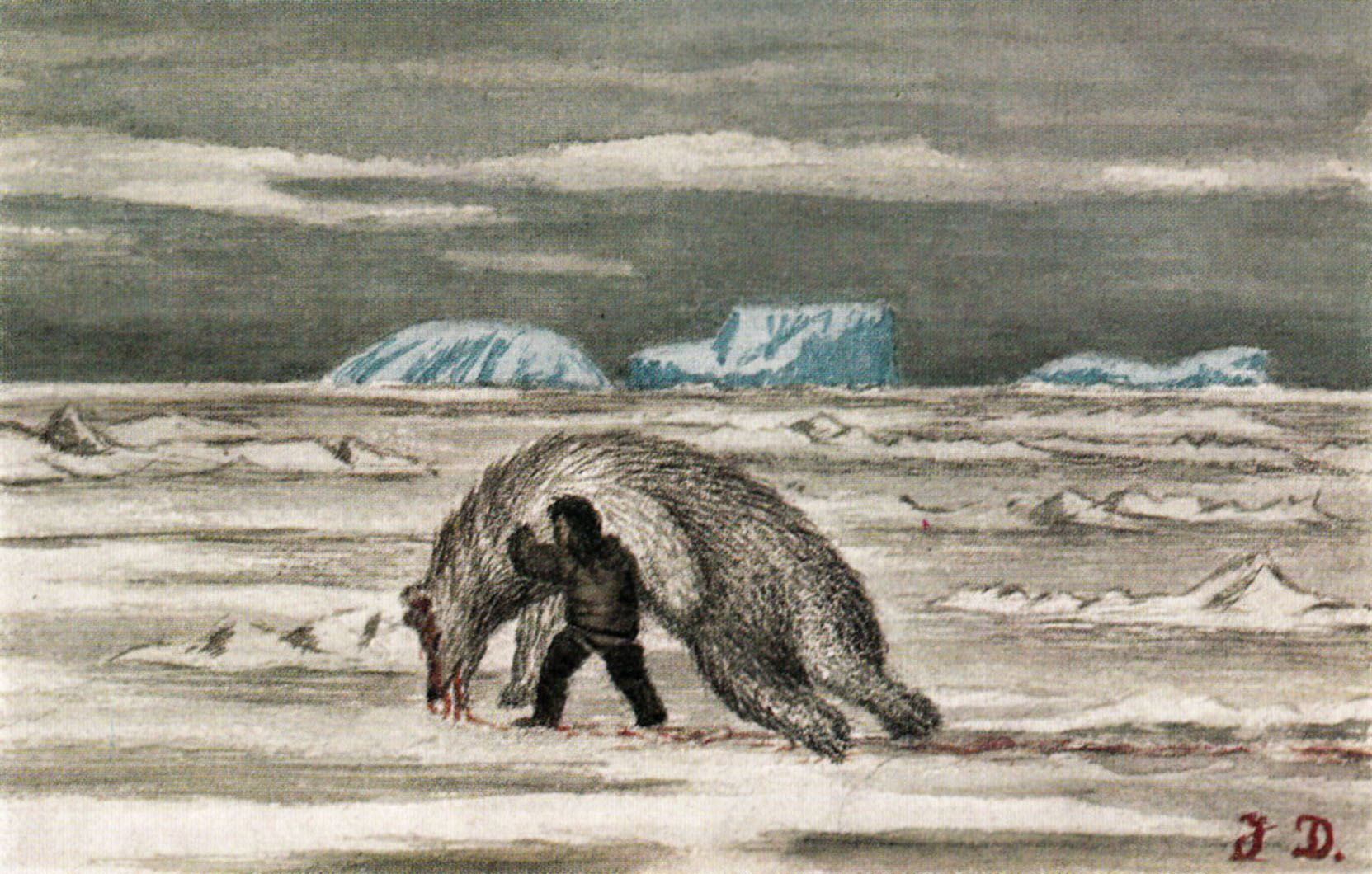 Jakob Danielsen - 09 Kaassassuk and the dead bear